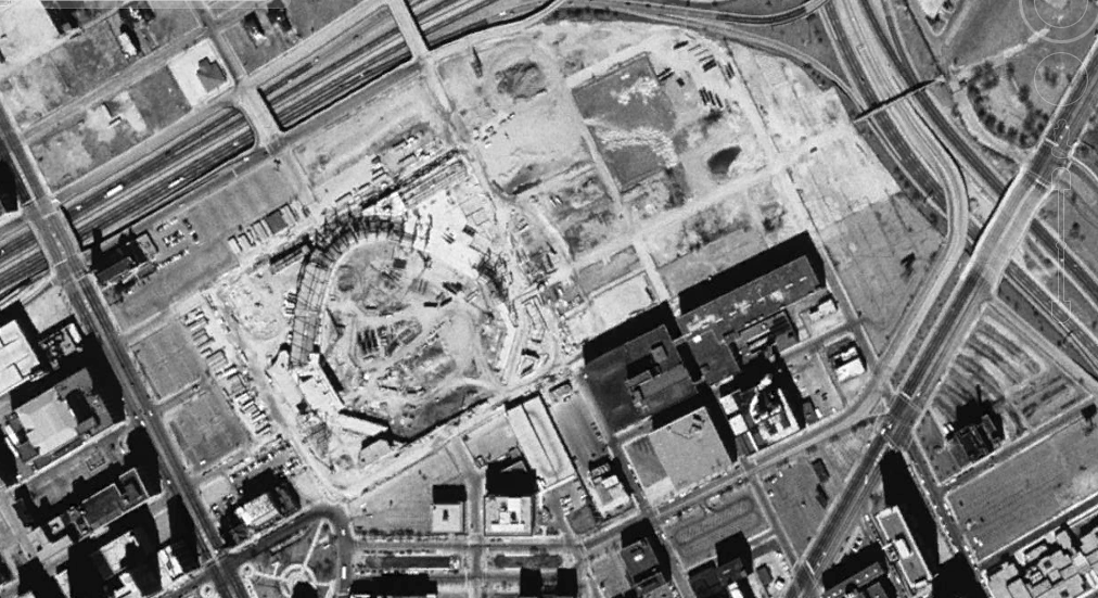 View of Comerica Park under construction in 1999.